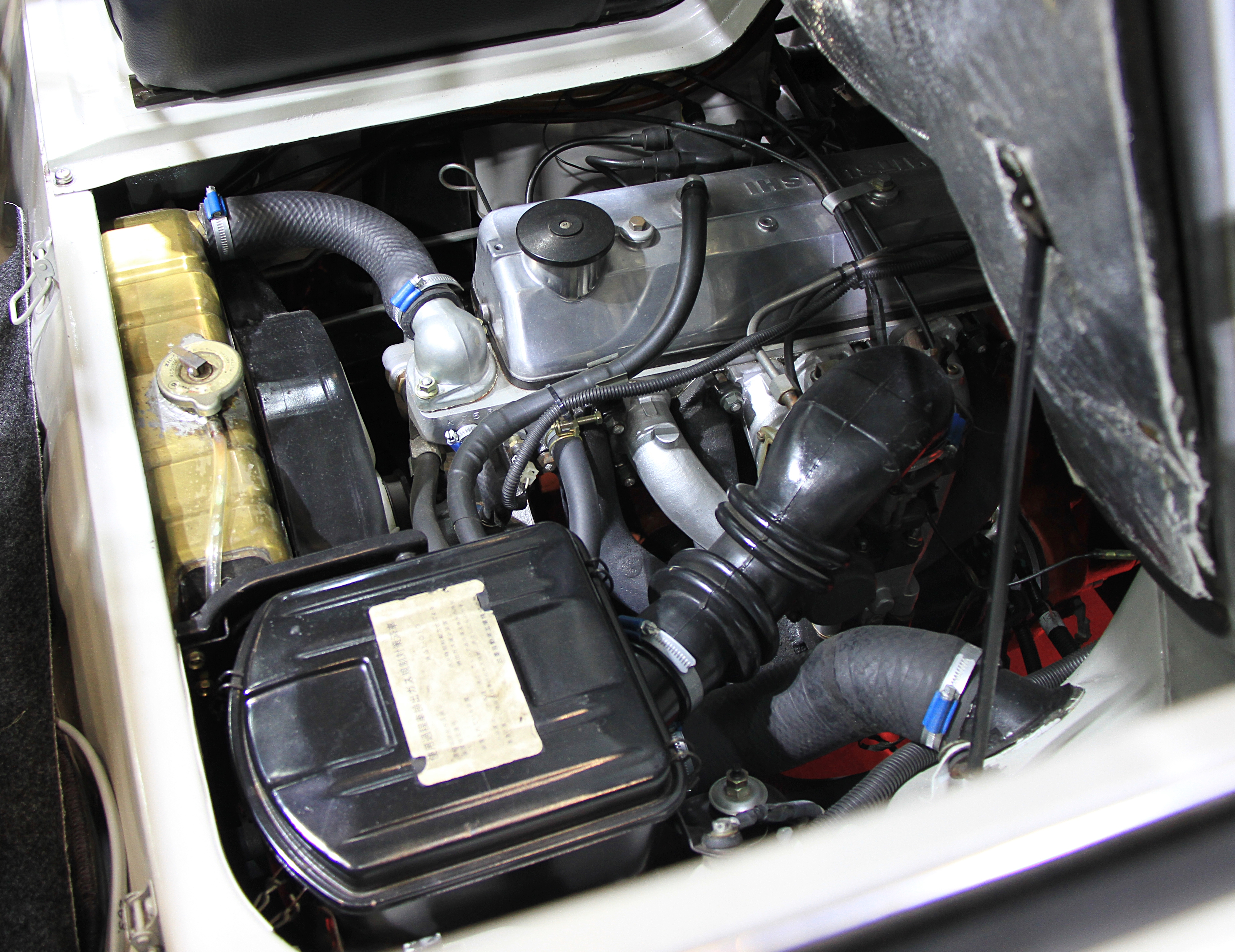 Fuso Canter T91A(H)